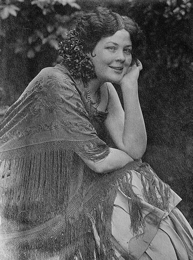 Canadian opera singer and actress Kathleen Howard (1884-1956) as Carmen